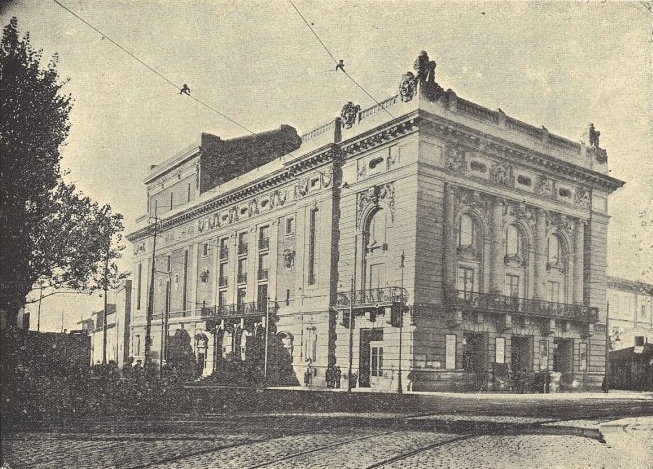 Photograph of the Teatro Nacional de São João (St. John Nacional Theatre), in the city of Porto, Portugal. In the foreground are the tracks for the Porto trams. This image was published on the Gazeta dos Caminhos de Ferro magazine No. 1115, of the 1st June 1934, and scanned by the Hemeroteca Municipal de Lisboa.